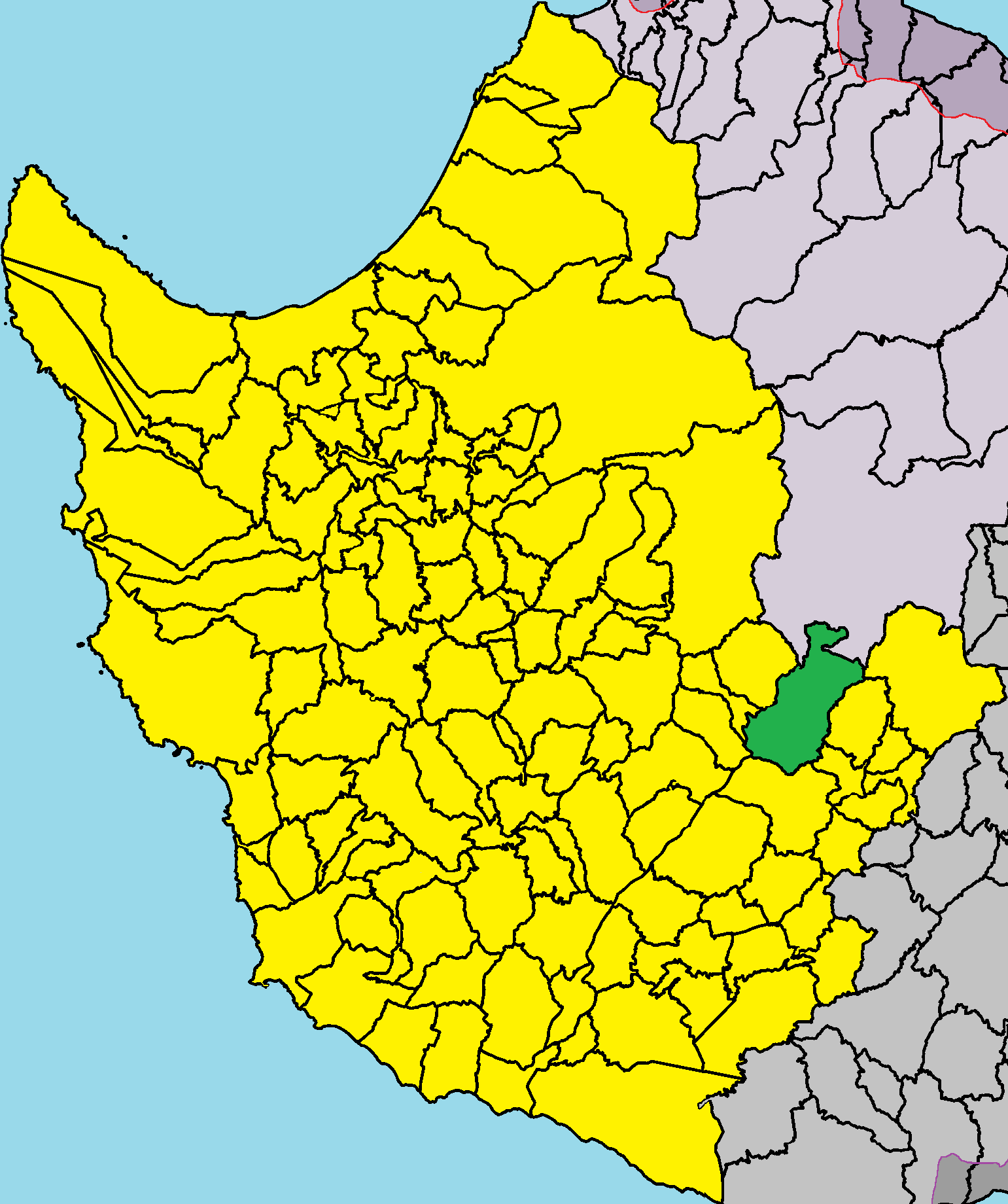 Agios Ioannis in Paphos District.